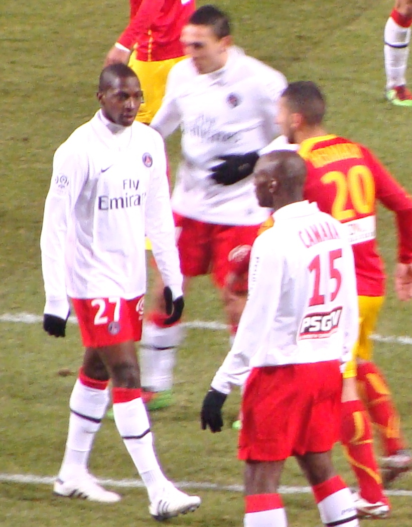 Sankharé (PSG vs RC Lens)